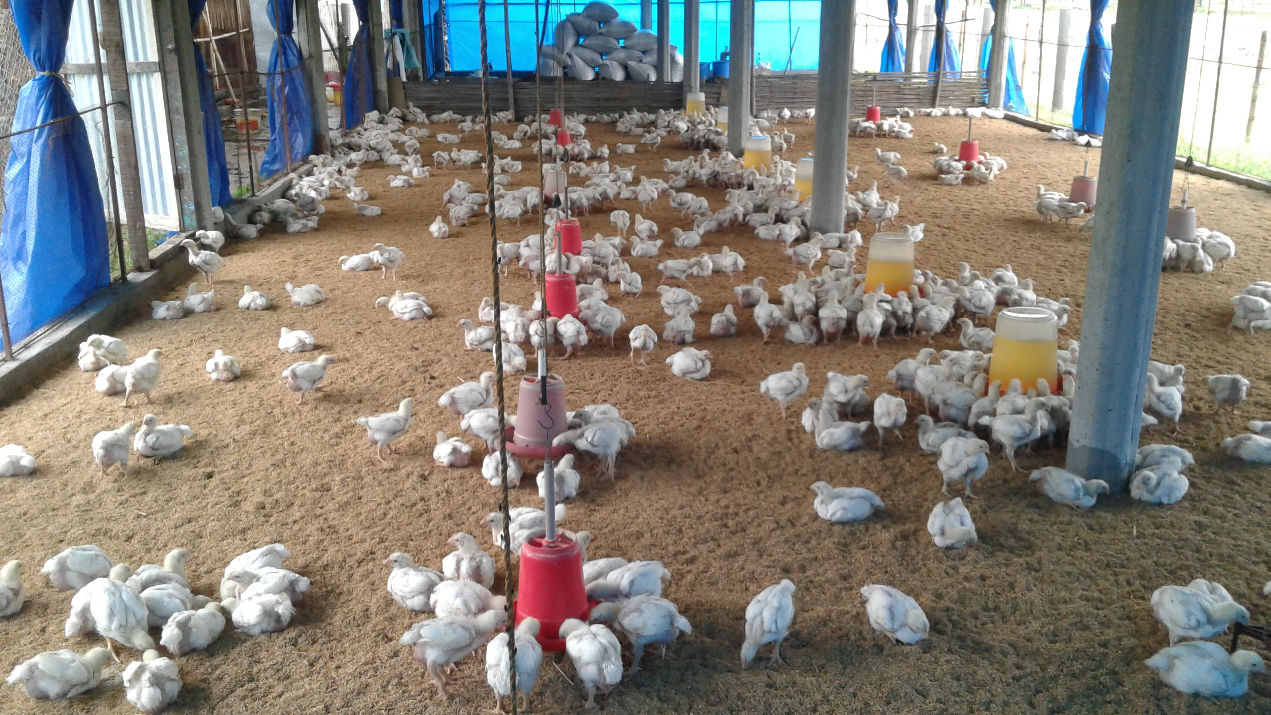 Chickens In Poultry Farm